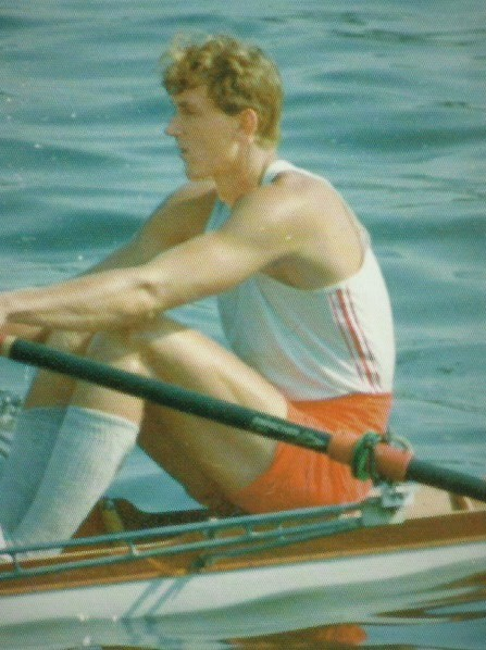 Rower of AZS Politechnika Wrocław, Andrzej Marszałek, on skiff in 1991